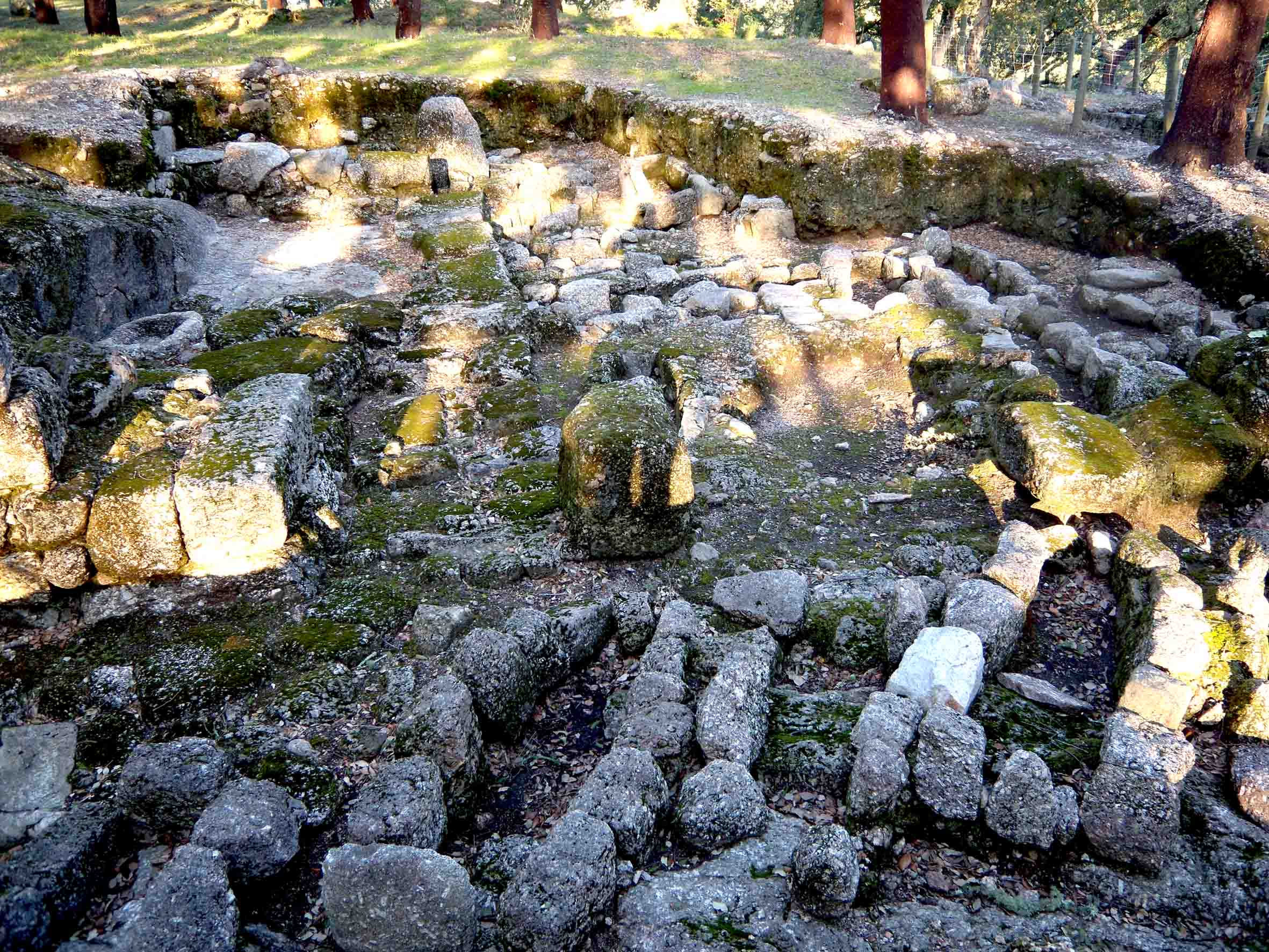 Hill Fort of Monte Padrão - Medieval cemetery - Santo Tirso - Portugal